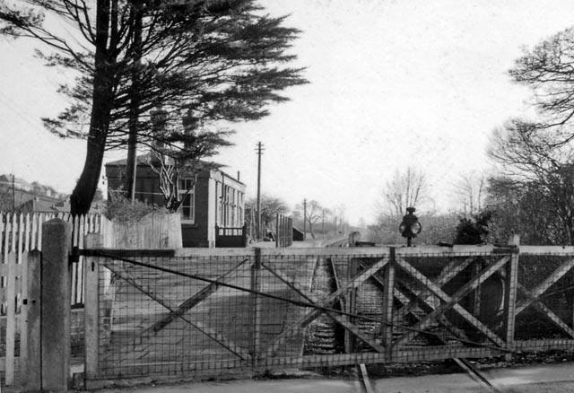 Bridport East Street Station (remains). View southward, towards West Bay; ex-GWR Maiden Newton - Bridport - West Bay line. This station, with West Bay, lost its passenger service beyond Bridport main station on 22/9/30, but remained open for goods until 3/12/62; Maiden Newton - Bridport survived until 5/5/75. (This station looks 'lived in', possibly).